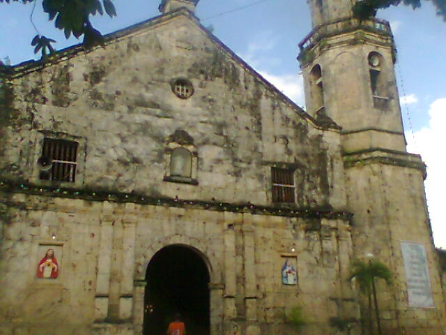 Front view of the Maasin City Cathedral.